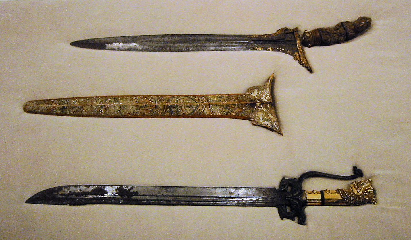 Kris and Kastane (acquired in the Philippines), presented by Hasekura to Date Masamune upon his return. Sendai City Museum. Personal photograph.